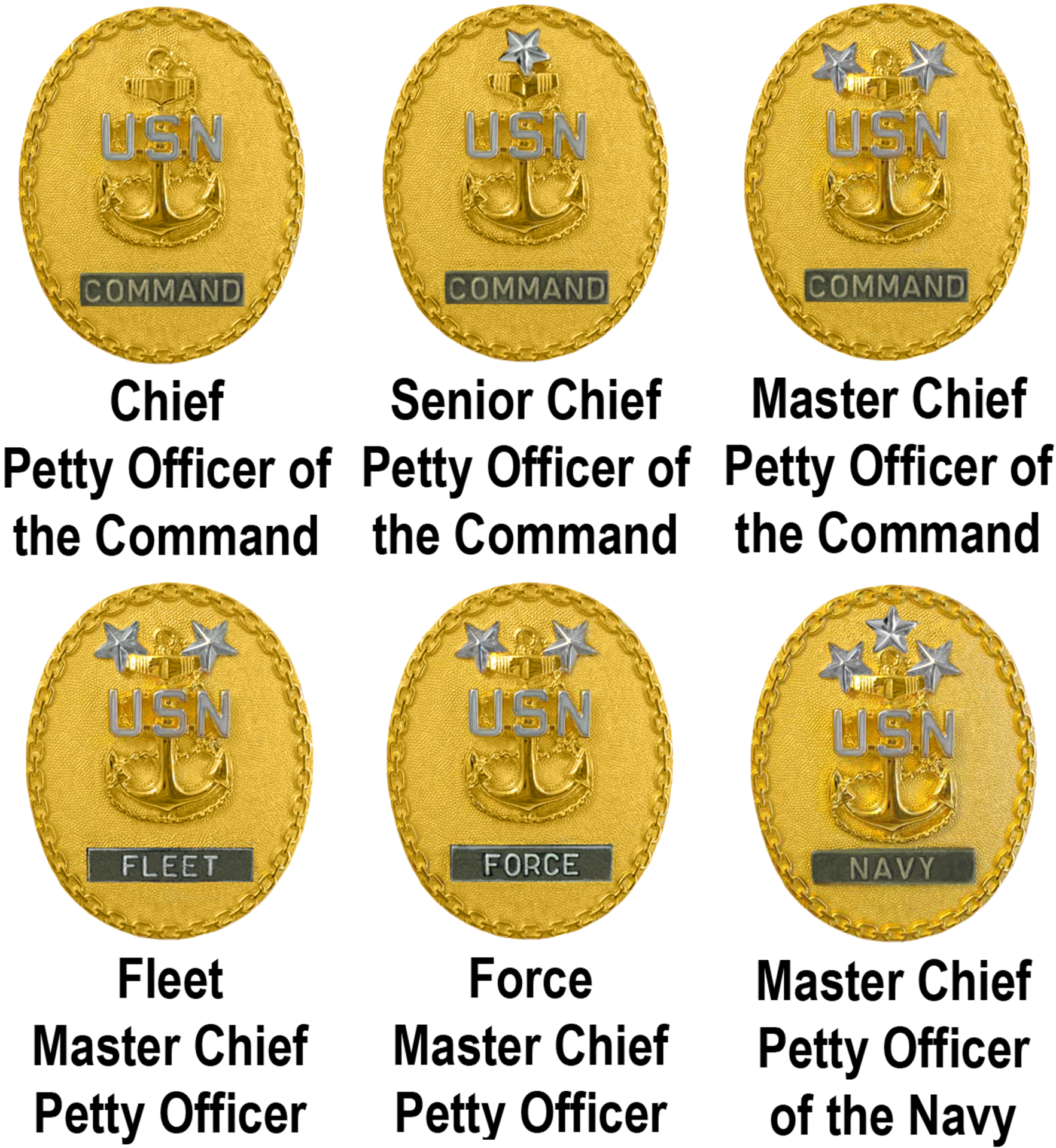 Image of identification badges used in the US Navy. For use in USN articles concerning badges